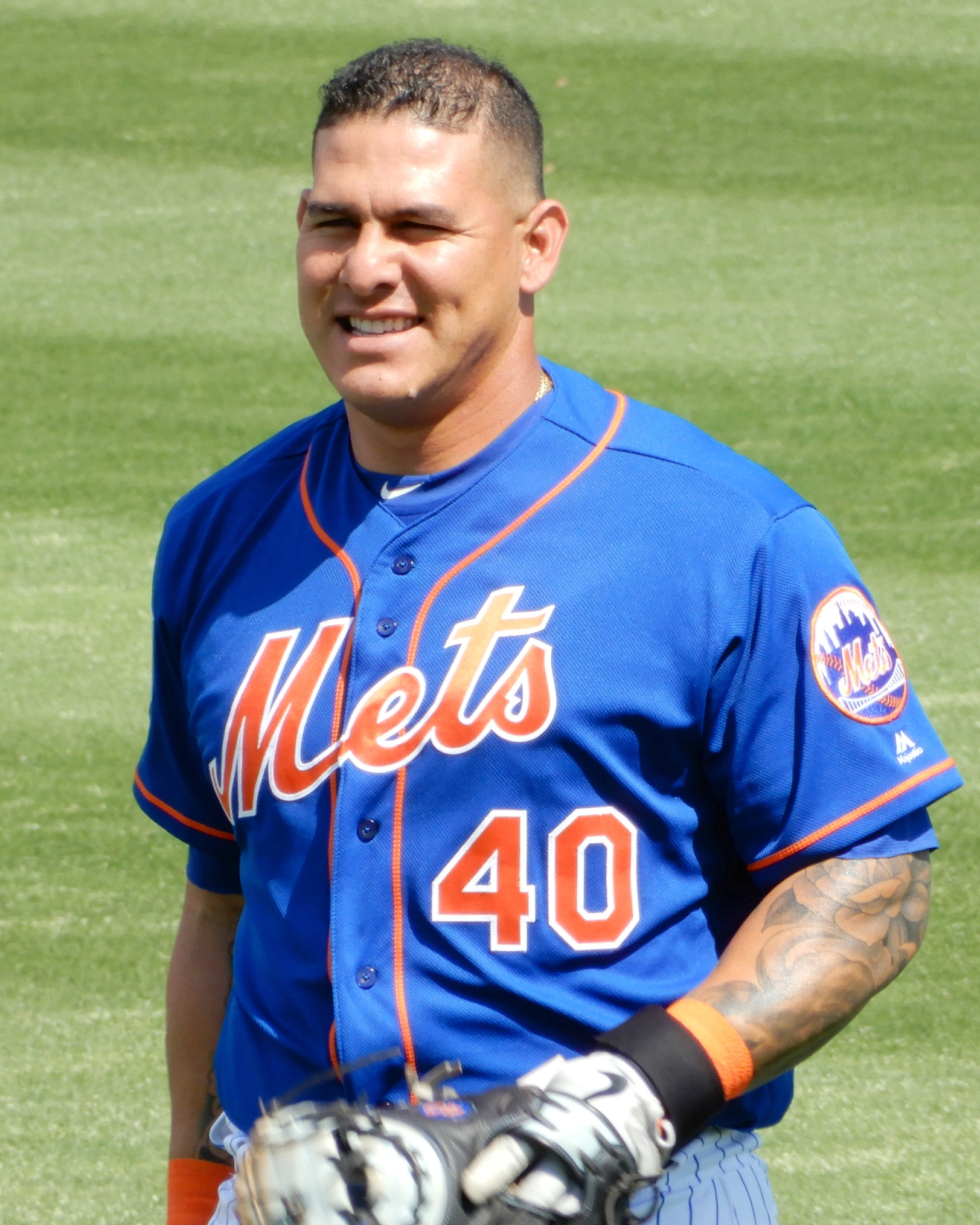 Wilson Ramos with the New York Mets during spring training in 2019.